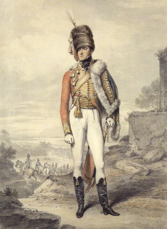 Henry William Paget (1768-1854), 1st Marquess of Anglesey